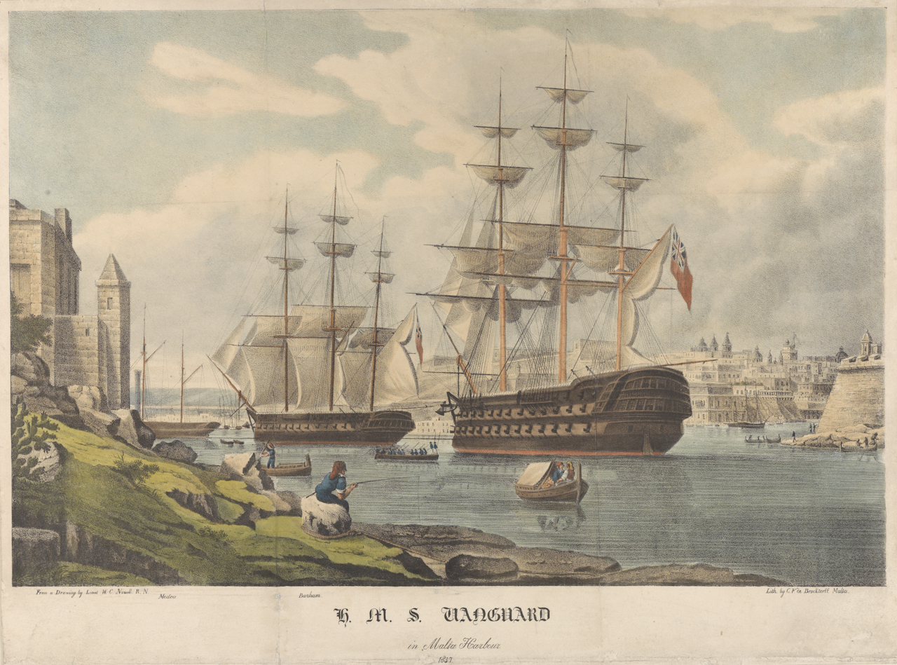 H.M.S. Vanguard in Malta Harbour 1837. (Shows Medea and Barham) Hand-coloured. William Calmady Nowell, RN was lieutenant on HMS Vanguard in the Mediterranean. H.M.S. Vanguard in Malta Harbour 1837. (Shows Medea and Barham)